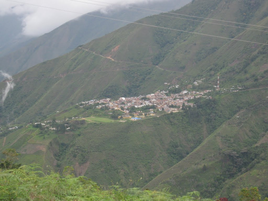 Panorama of the town of Leiva (Nariño) from the village of La Garganta. Photography by Andrés Viveros.